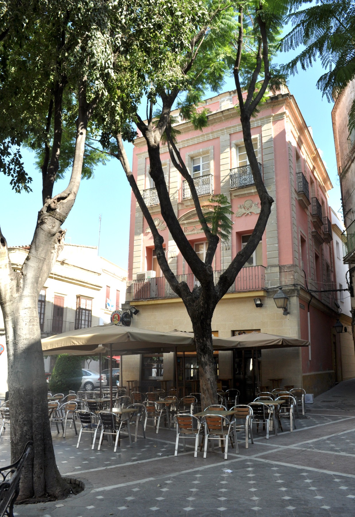 Plateros Square. Building. Jerez